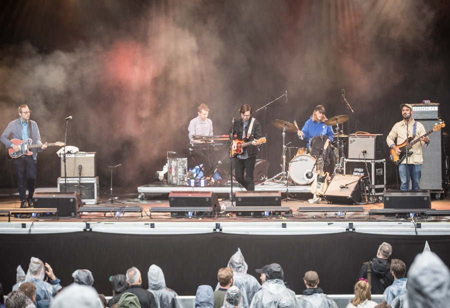 Real Estate at the main stage in the Vigeland Park. The concert was part of Piknik i Parken and took place on 23. June 2017 in Oslo. Lineup: Martin Courtney (guitar and vocal), Alex Bleeker (bass guitar and vocal), Jackson Pollis (drums), Matt Kallman (keyboard) and Julian Lynch (guitar).